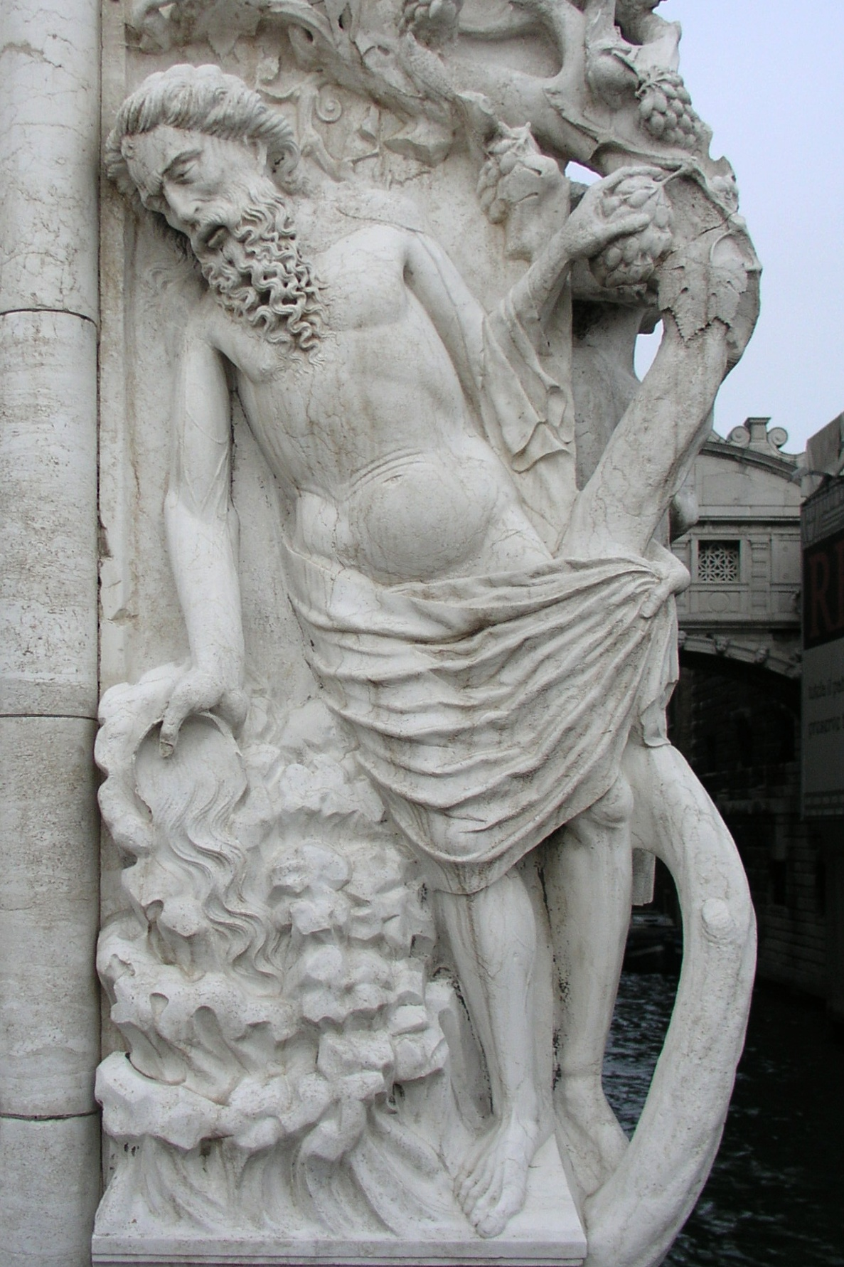 Drunken Noah, Doge's Palace, Venice, Italy